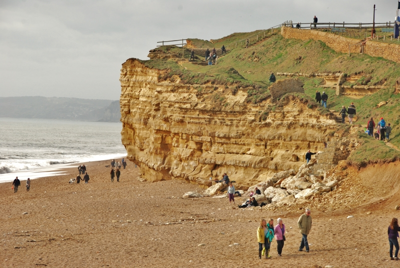 Burton Bradstock: Burton Beach Coast Path The coast path over Burton Cliff.